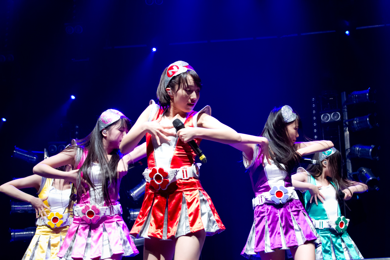 Japan Expo 13 - 2012 Cover pics by Dj ph All sets here : bit.ly/LHdWLq